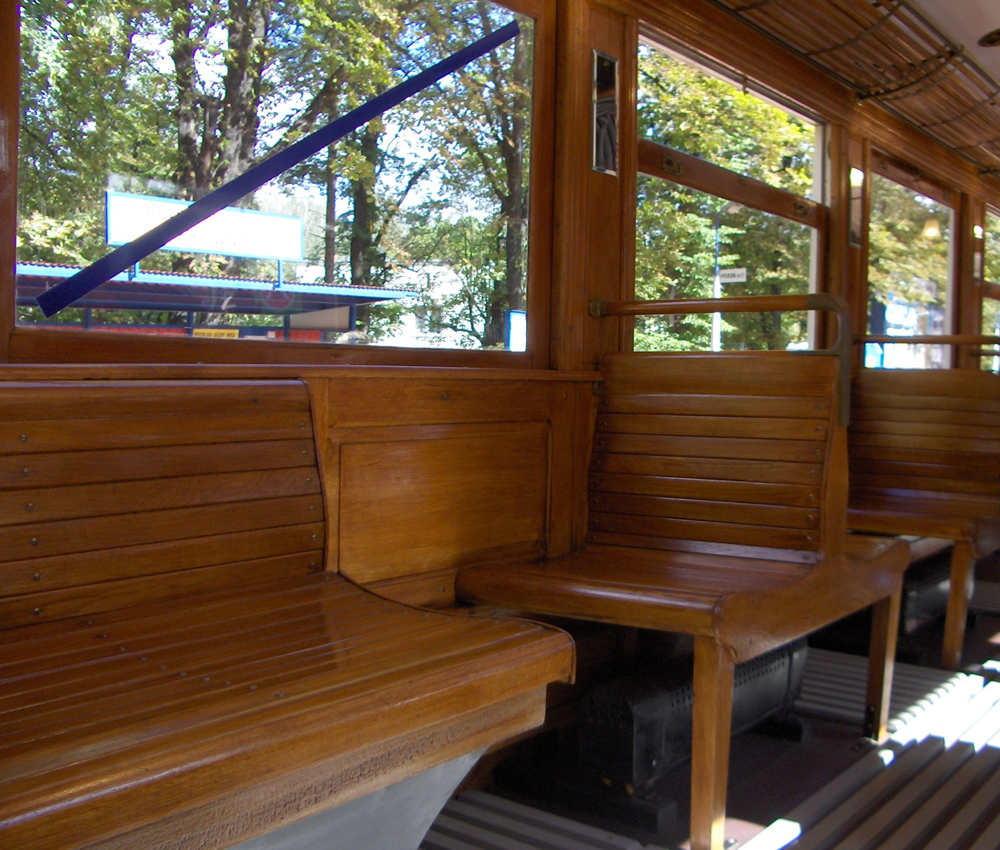 Inside of polish electric multiple unit EN80.